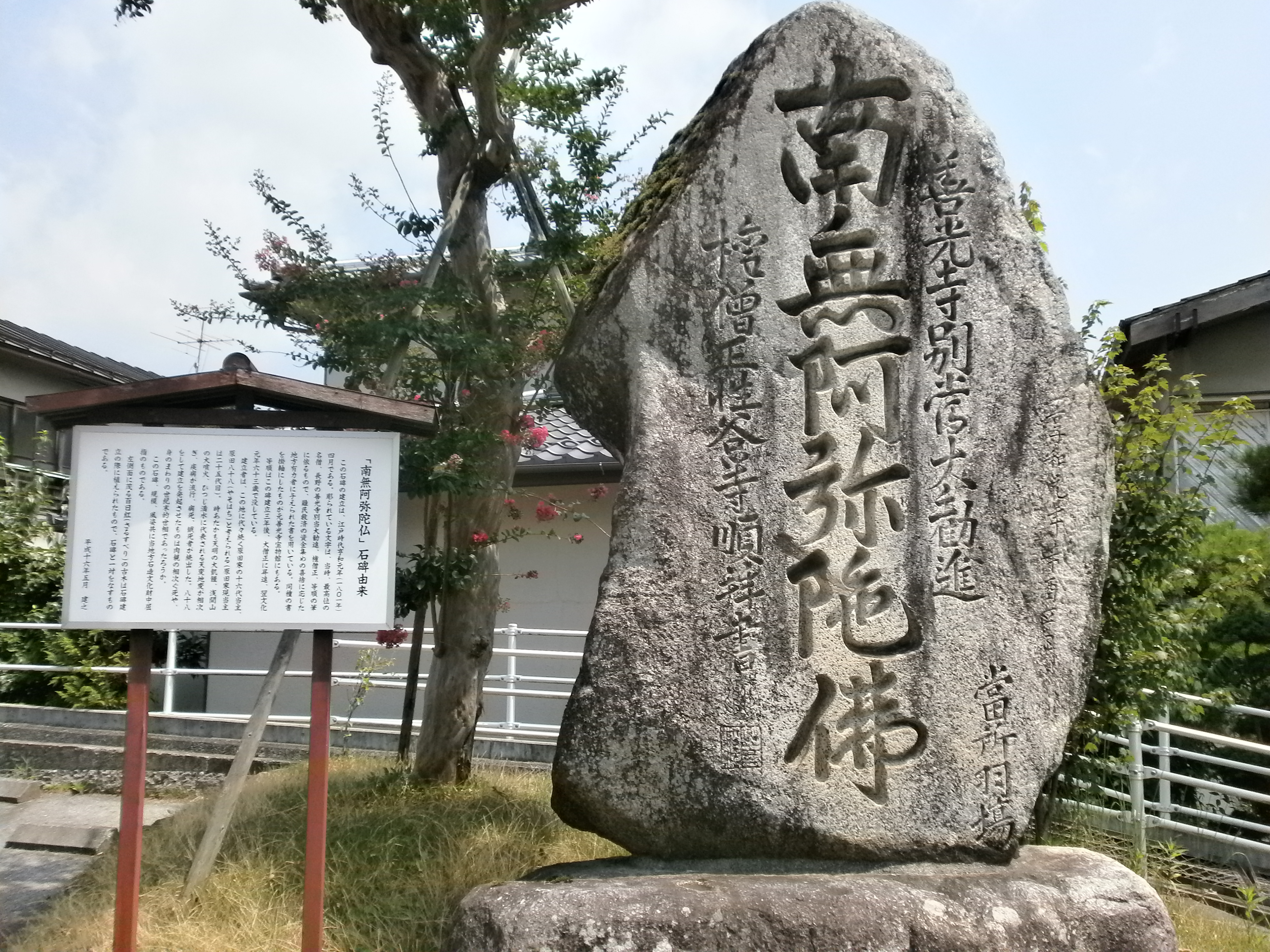 Zenkouji-toujyun-sunaharai